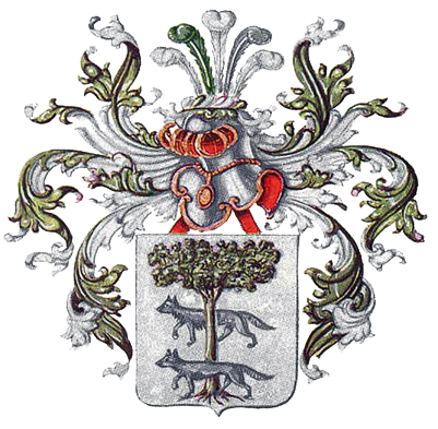 The arms are those of the last Lords of Meldert, the family Arrazola de Oñate.